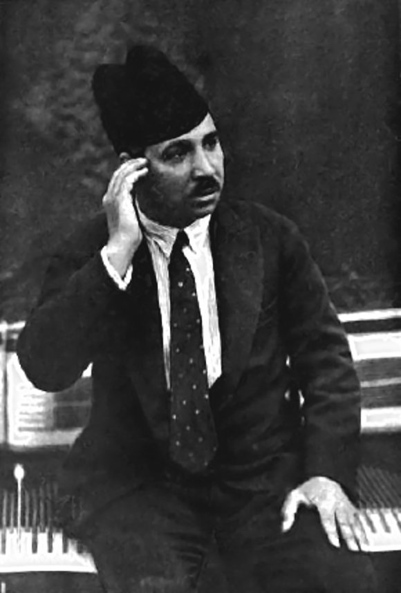 Iraqi maqam performer Muhammad al-Qubbanchi (1932)